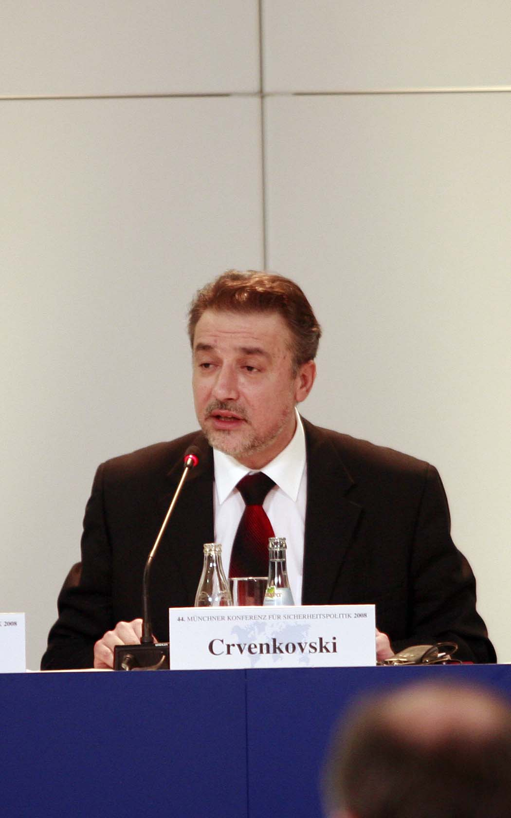 44th Munich Security Conference 2008: The former President of Macedonia, Branko Crvenkovski, during his speech.